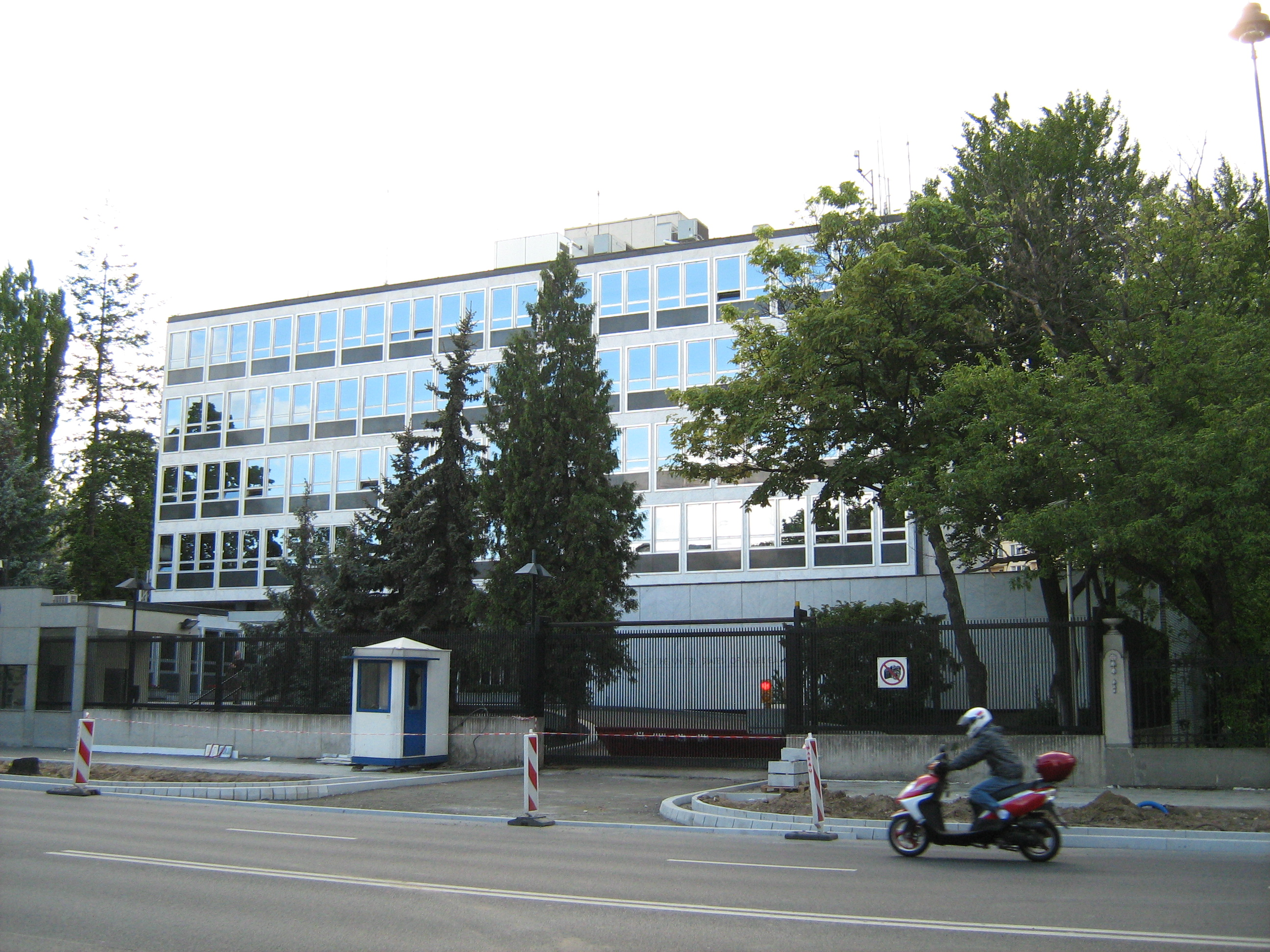 USA Embassy in Warsaw Poland. View from Aleje Ujazdowskie.